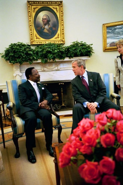 President George W. Bush and President Omar Bongo Ondimba of Gabon meet in the Oval Office